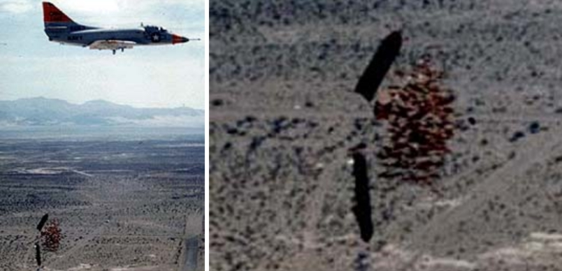 A U.S. Navy CBU Mk 20 Rockeye II dropped from a Douglas A-4C Skyhawk at the Naval Air Weapons Station China Lake, California (USA), immediately after opening. Fielded in 1968, the Rockeye dispenses 247 shaped-charge antitank bomblets.